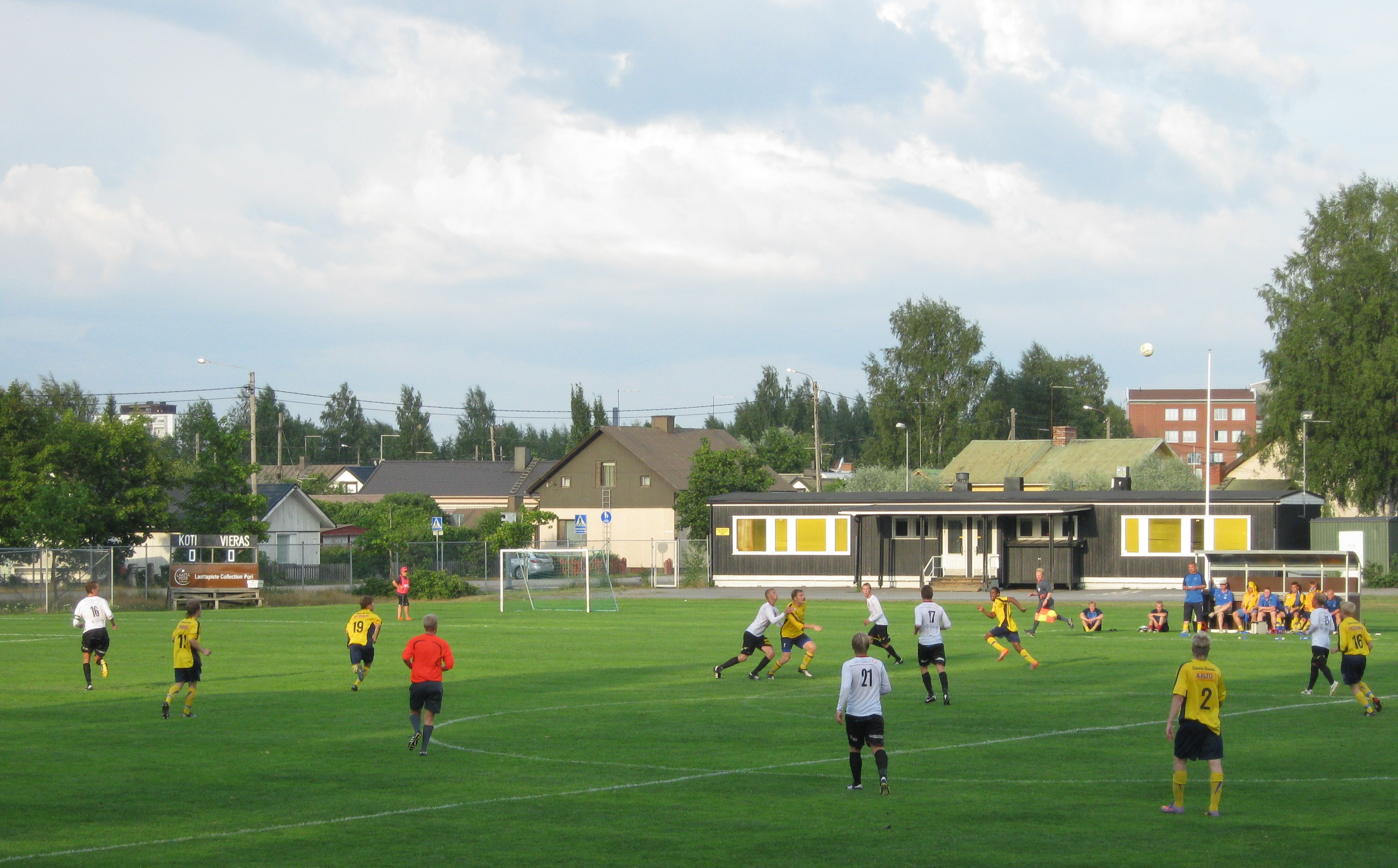 Musa football ground 2010. Pori, Finland.